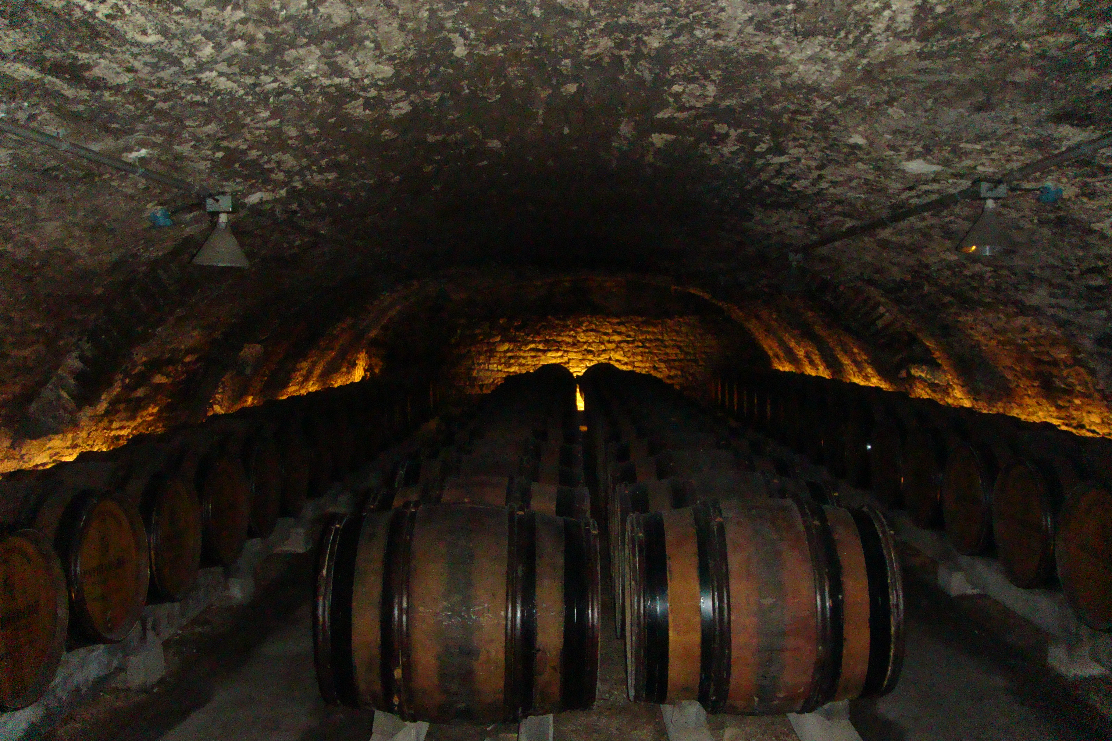 Wine cave containing aging oak barrels of wine in the French region of Burgundy